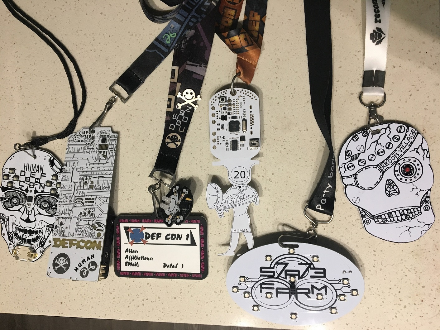 Multiple DefCon badges, electronic and non-electronic, and other con badges.